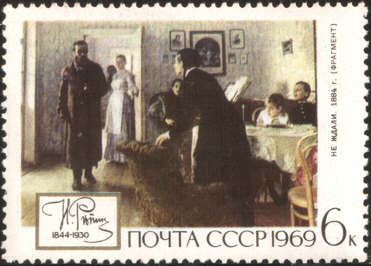 USSR stampː Unexpected. Seriesː 125th Birth Anniversary of Ilya Repin, Painter (1844-1930)